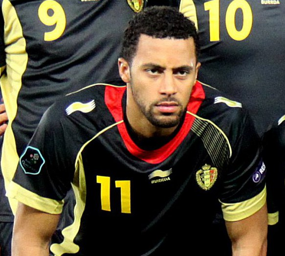 Moussa Dembélé, cropped from Belgium against the Austrian national football team (0:2), 2011-03-25 in Vienna (Ernst-Happel-Stadion